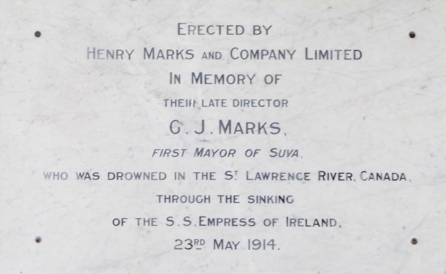 Clock Tower Thurston Garden Sign